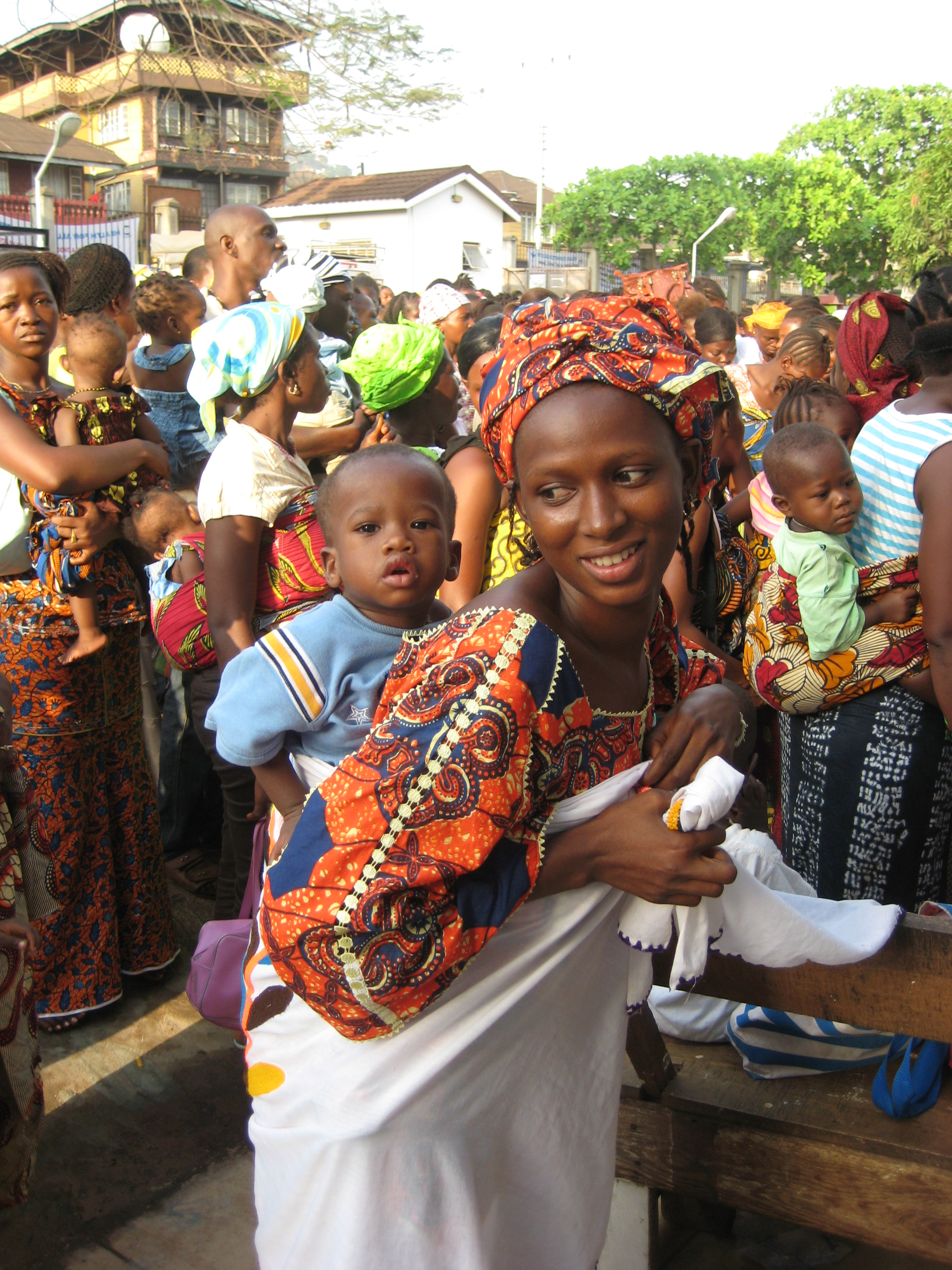 On the 27 April 2010 Sierra Leone launched free healthcare for pregnant and breastfeeding women, and children under 5. This mother and baby are part of a crowd of 200 people queuing at 8am for a Children's hospital to open. Many women are not so fortunate to have access to free healthcare. More than a third of a million women die every year from complications during pregnancy and childbirth. For every woman that dies another 20 women suffer from chronic ill-health or disability. India accounts for 20% of all maternal deaths and a woman in India has a 1 in 70 lifetime risk of dying as a result of pregnancy and childbirth. Niger has lower numbers of maternal deaths, with 2.6% of global maternal deaths, but a much higher risk. For example, a woman in Niger has a 1 in 7 lifetime risk of dying as a result of pregnancy and childbirth. Visit to find out how the UK is helping improve reproductive, maternal and newborn health in developing countries.